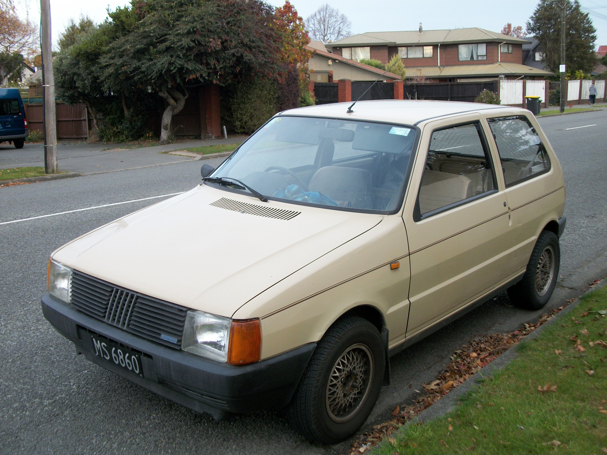 MS6860 I spotted this over a year ago, but just remembered about it now after seeing it out driving a few days ago. There is a strange charm about these Mk1 Unos that just draws you to them, and our very own GoldScotland71 is lucky enough to own one.